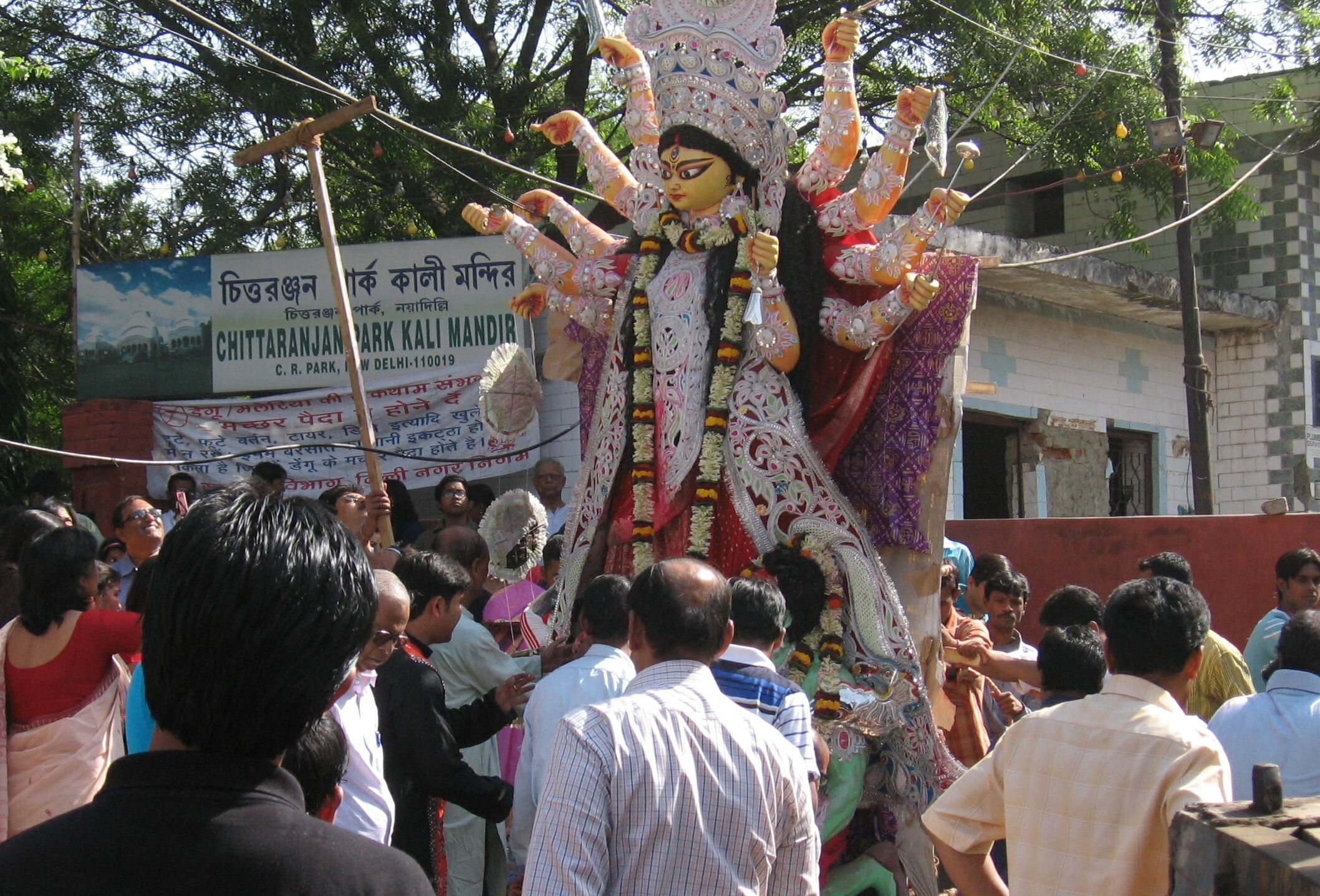 durga idol from Chittaranjan Park Kali Mandir being lifted onto truck for immersion. this marks the end of the five-day durga puja festival.